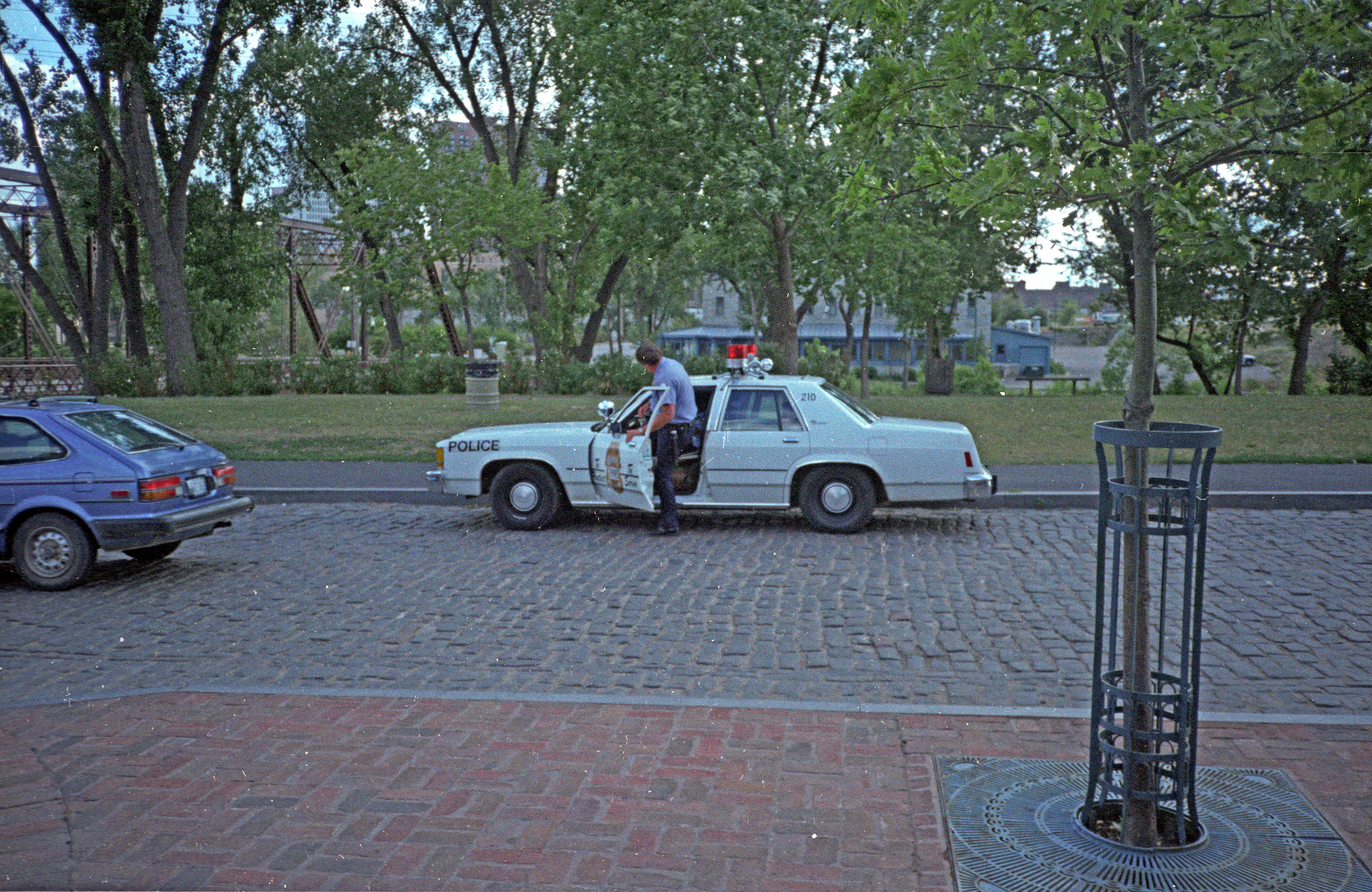 Minneapolis traffic patrol car and officer in 1987, across the Mississippi River from Nicollet Island.